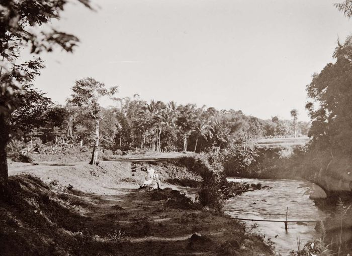 River, Katulampa